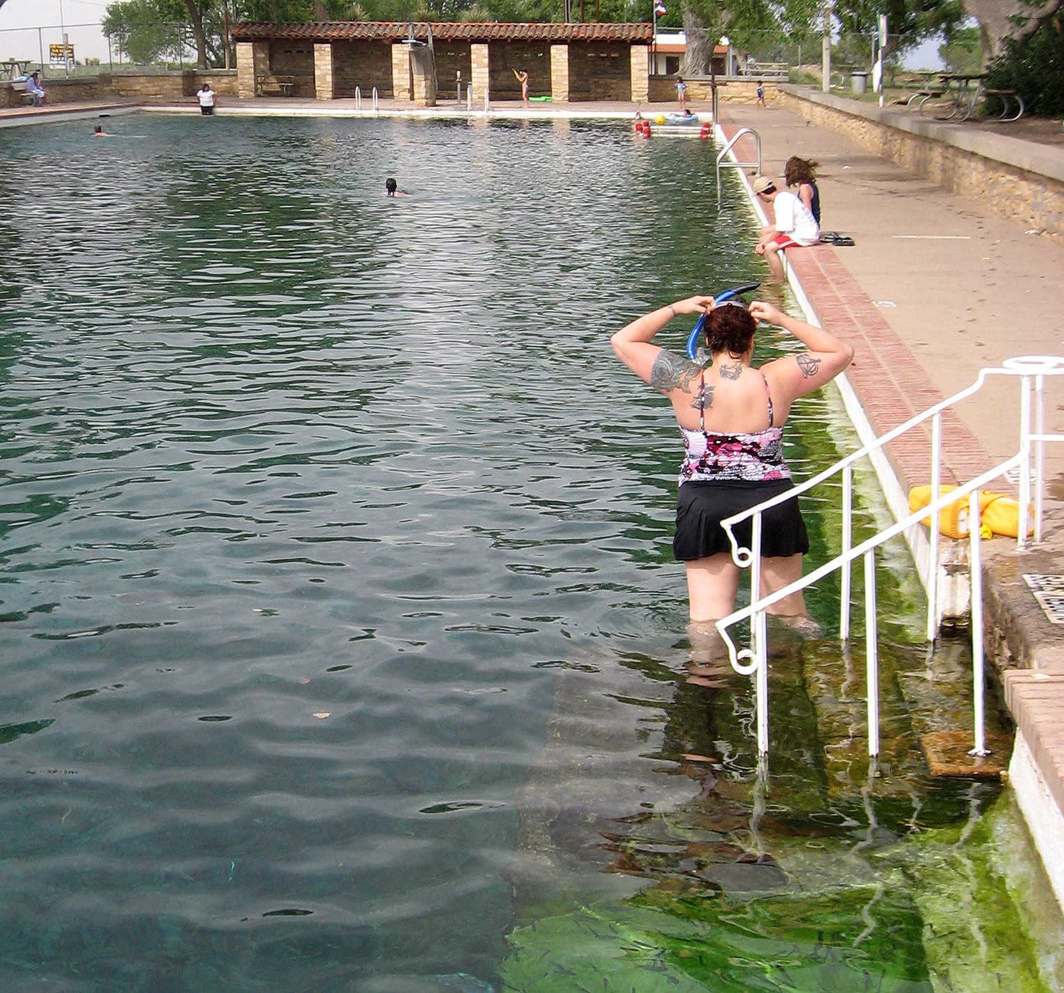 San Solomon Springs pour fourth about 28 million gallons of water a day. In the 1030 they harnessed this flow to create a large swimming pool. In doing so they essentially destroyed the marsh the spring had fed for thousands of years. Hunters probably gathered at these springs 11,000 years ago. In recent times an attempt was made to recreate the marsh